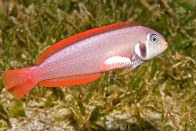 Xyrichtys martinicensis photographed in St. Vincent.